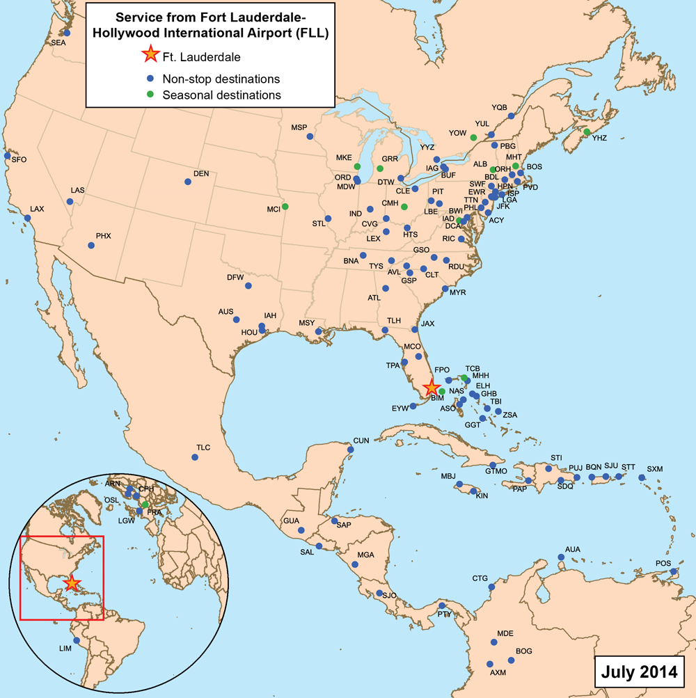 This is a route map for Fort Lauderdale-Hollywood International Airport as of May 2010. Map is an Azimuthal equidistant projection centered on the airport so straight lines from Fort Lauderdale are along great circle routes. Source.